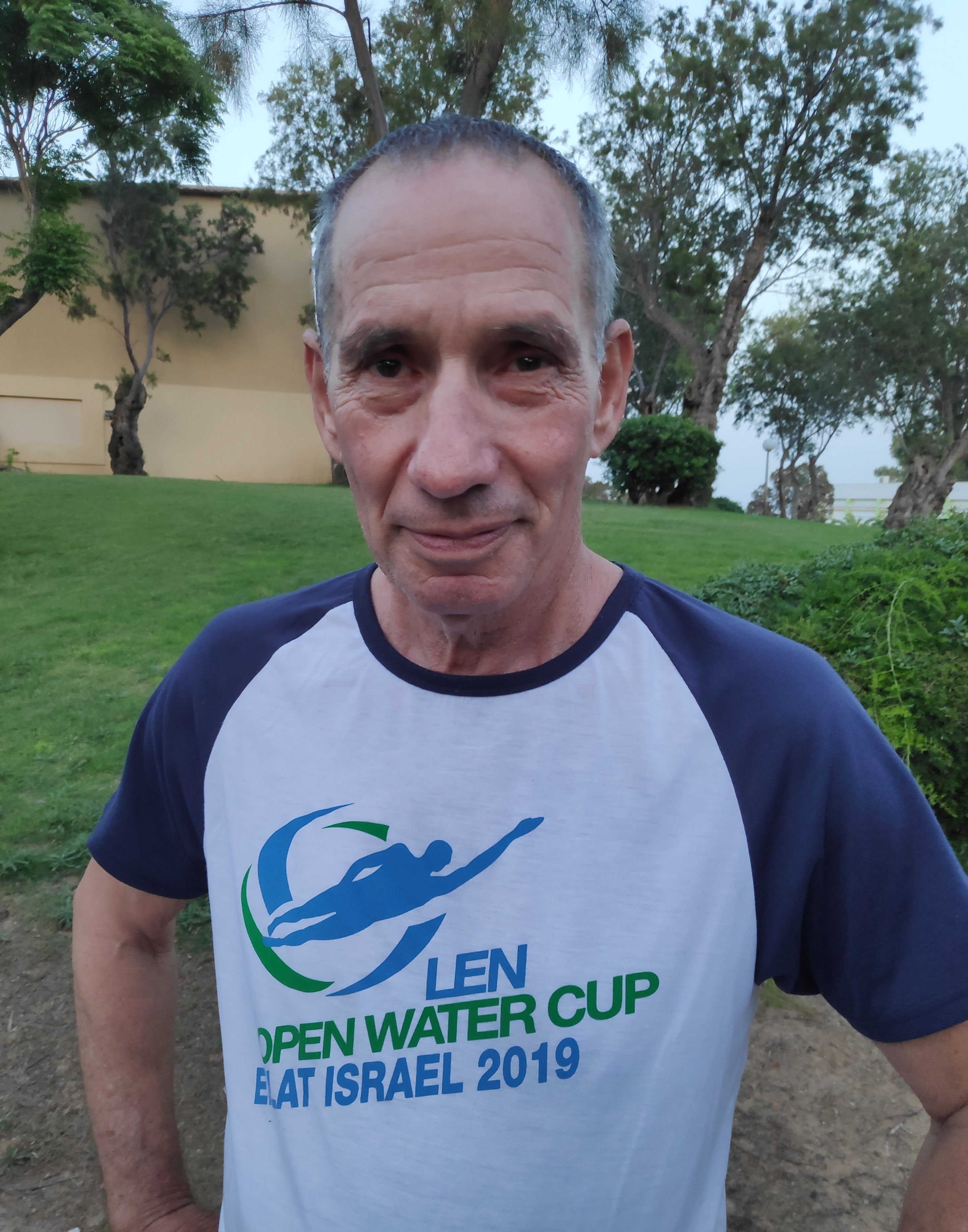 Hanan Gilad, at a meeting of swimmers and coaches in memory of Amir Ganiel, May 30, 2019